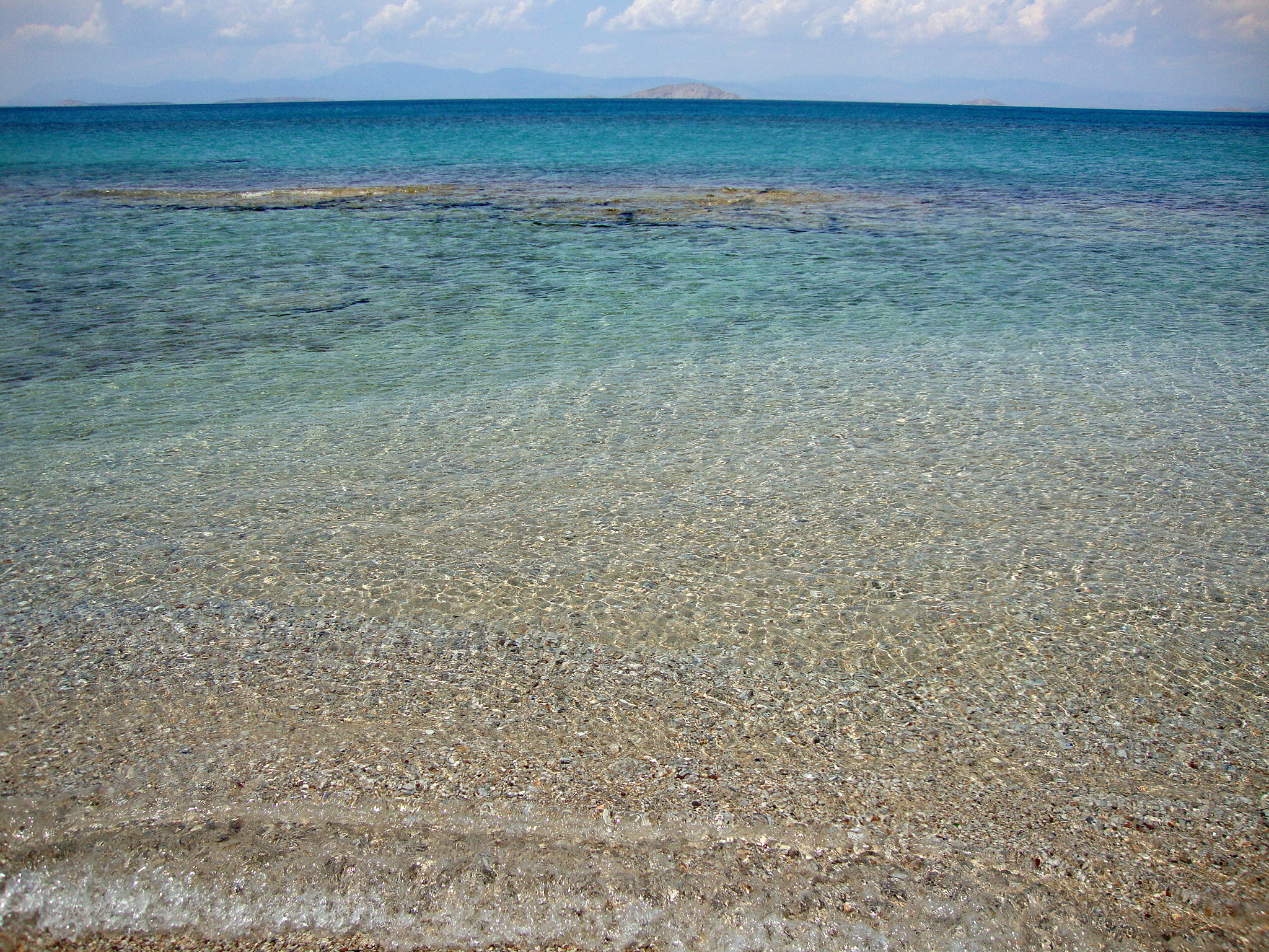 Agistri,Saronikos,Greece